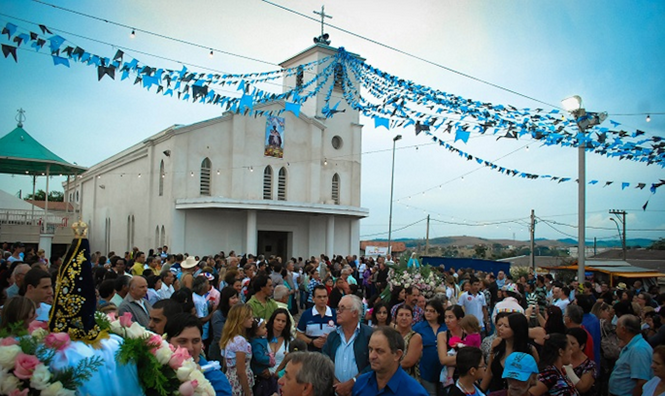 Festa de maio itapira